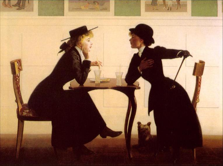 The discussion